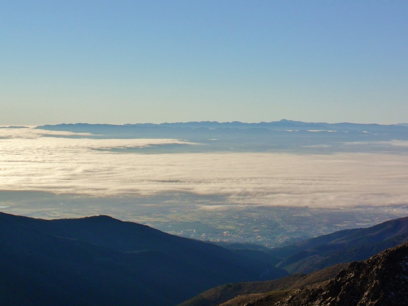 Fog covering the Tiétar Valley in the winter.